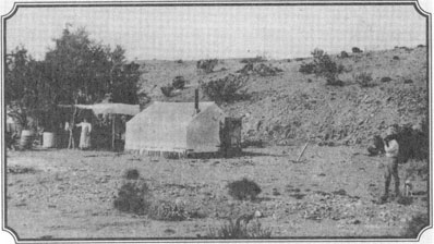 Wyatt Earp's camp, tent and ramada near Vidal, California and Wyatt's mining operations. Sadie is at left, Wyatt is on the right with his dog. Found among Sadie Earp's private papers. From the Glenn Boyer Collection.